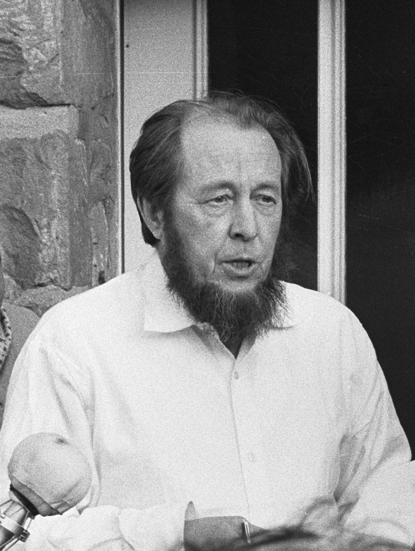 De Russische schrijver Alexander Solzjenitsyn is uitgewezen uit Rusland en verblijft nu in het huis van Heinrich Böll